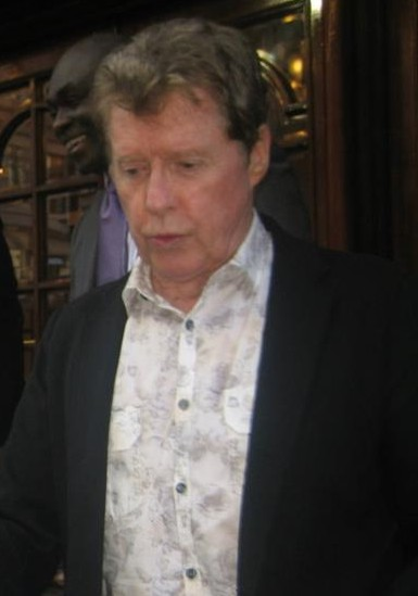 The actor Michael Crawford in Dress Circle, London, summer 2012